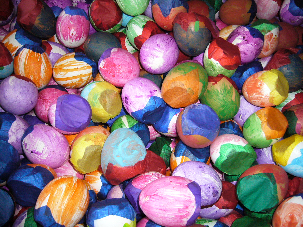 eggs shells cascarones